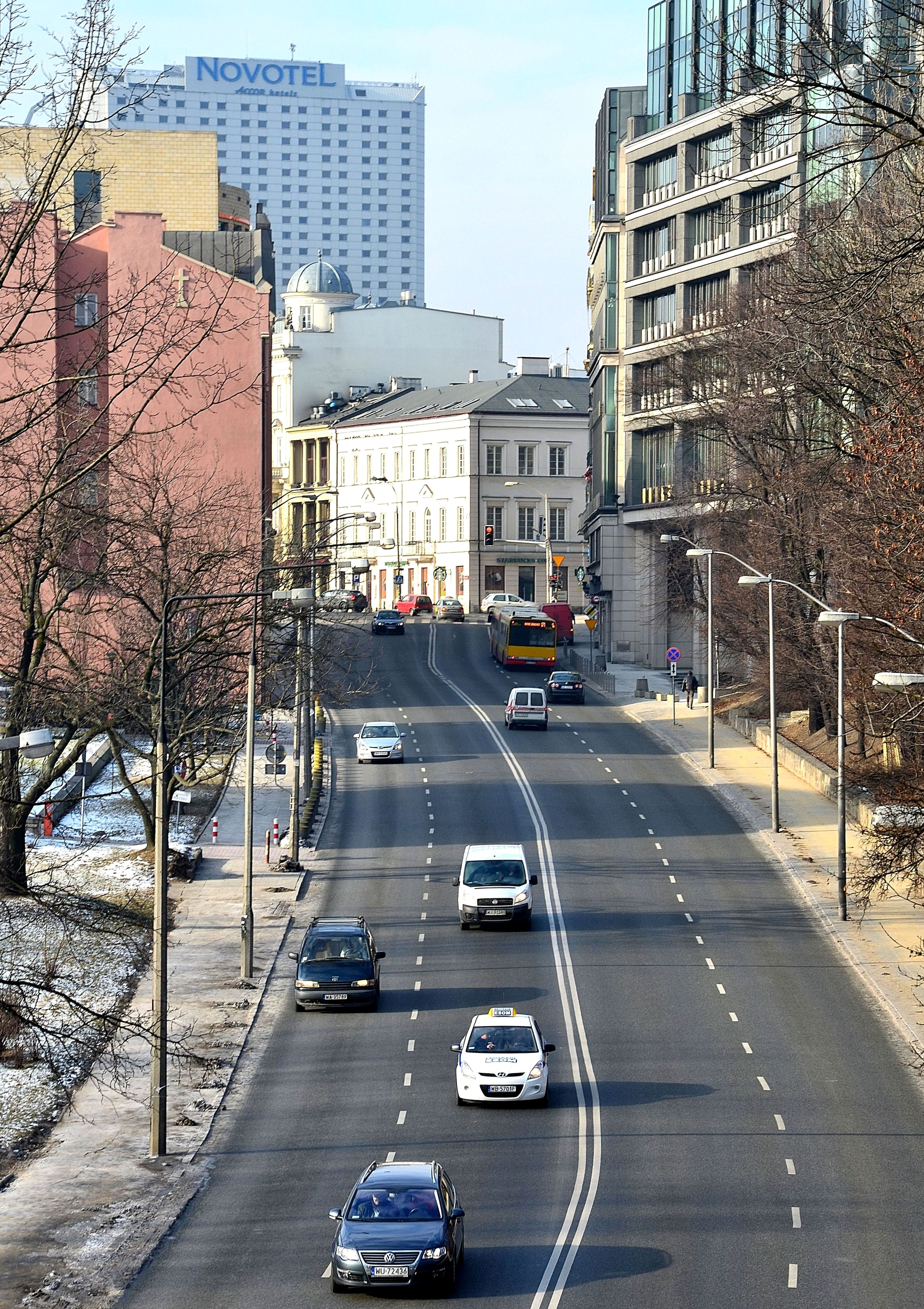 Książęca Street in Warsaw